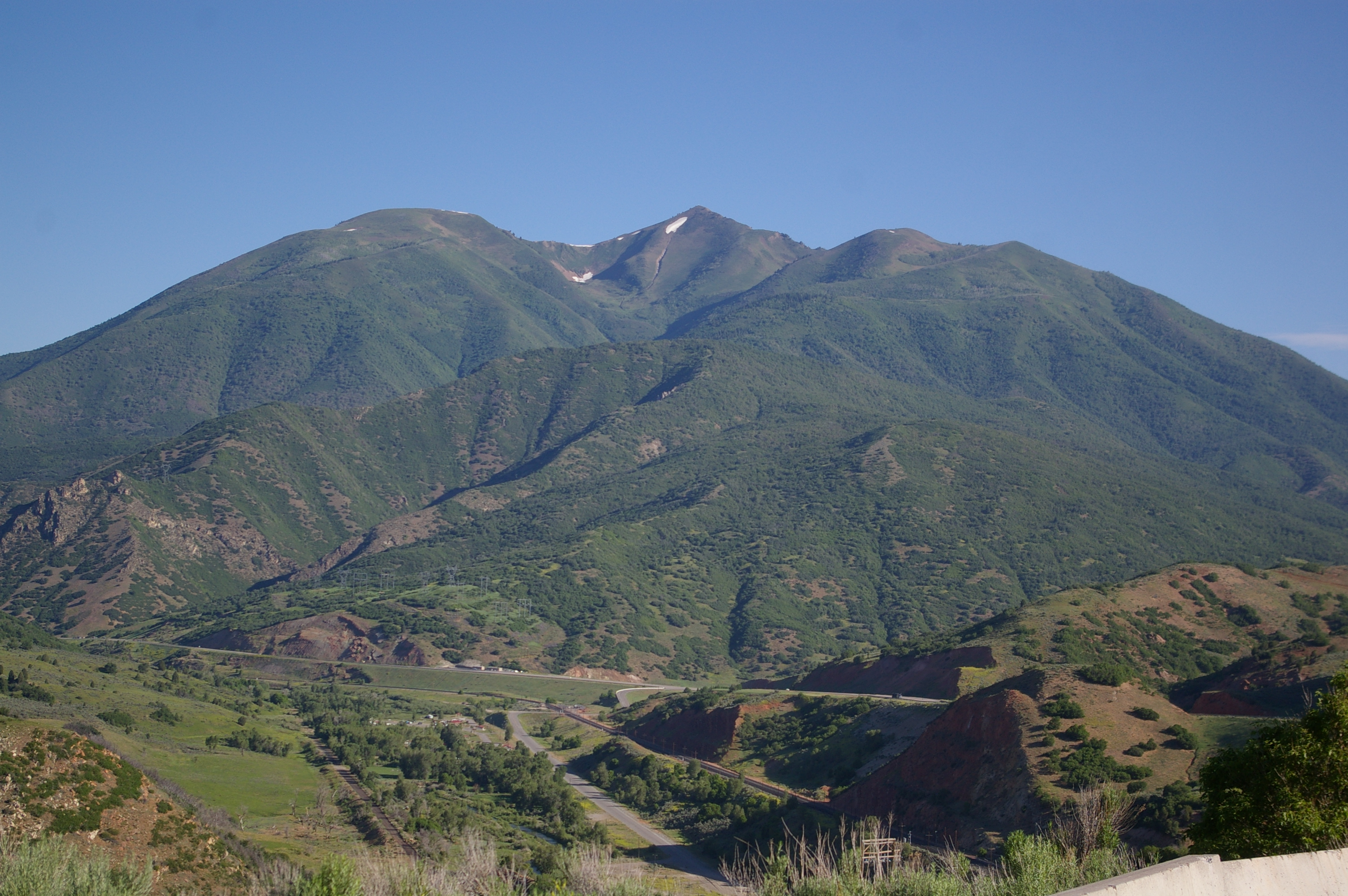 Spanish Fork Canyon, as viewed from the view area to honor the destroyed town of Thistle. From left to right the transportation arteries are, abandoned Denver and Rio Grande Western line, abandoned U.S. Route 6, modern rail line, modern US-6.